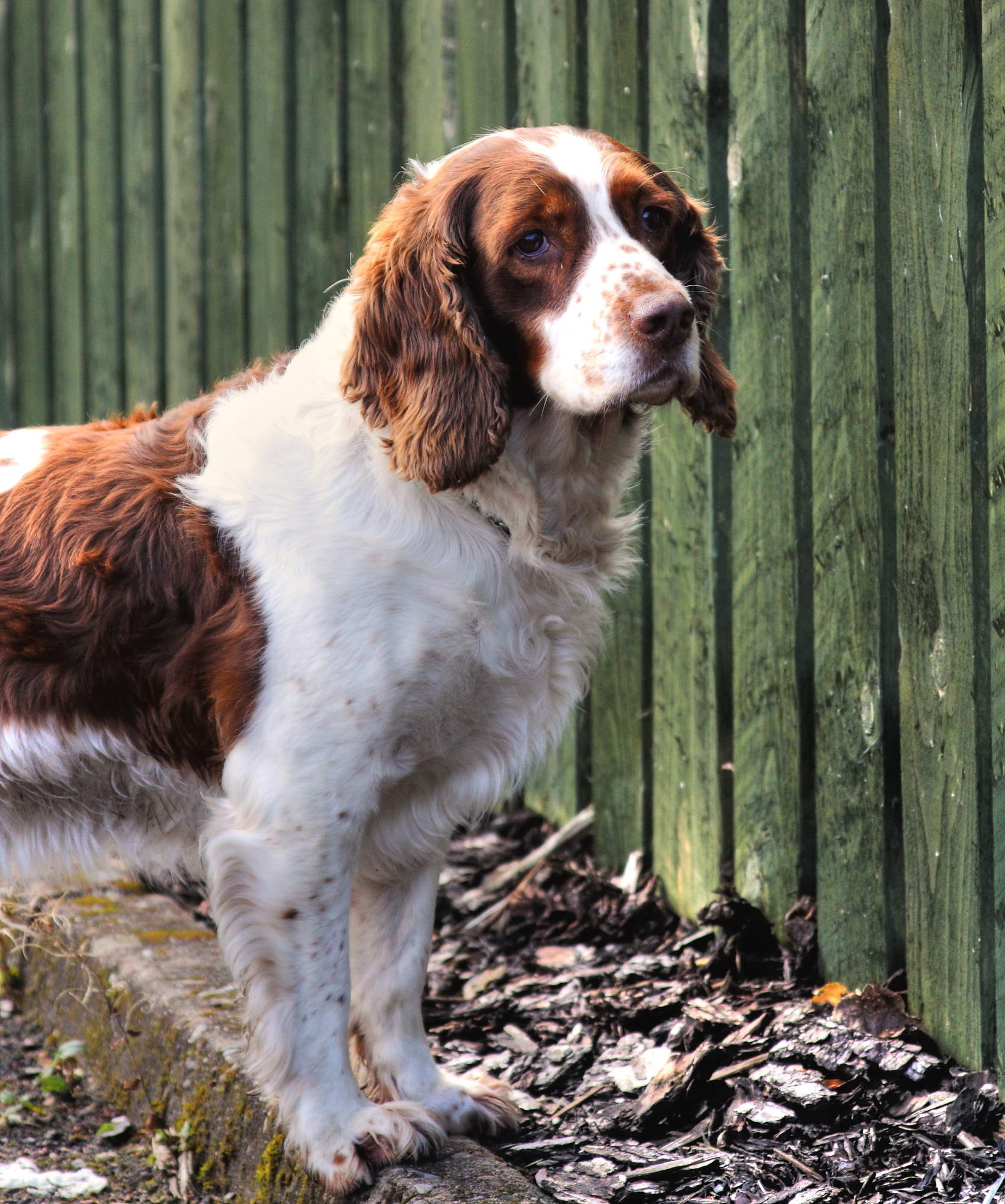 I found this spaniel sat on our drive this morning,he has no microchip so he has either been abandoned or was frightened by fireworks and escaped from his owner. So he has joined our family for the time being........Well,who could ignore a face like that?